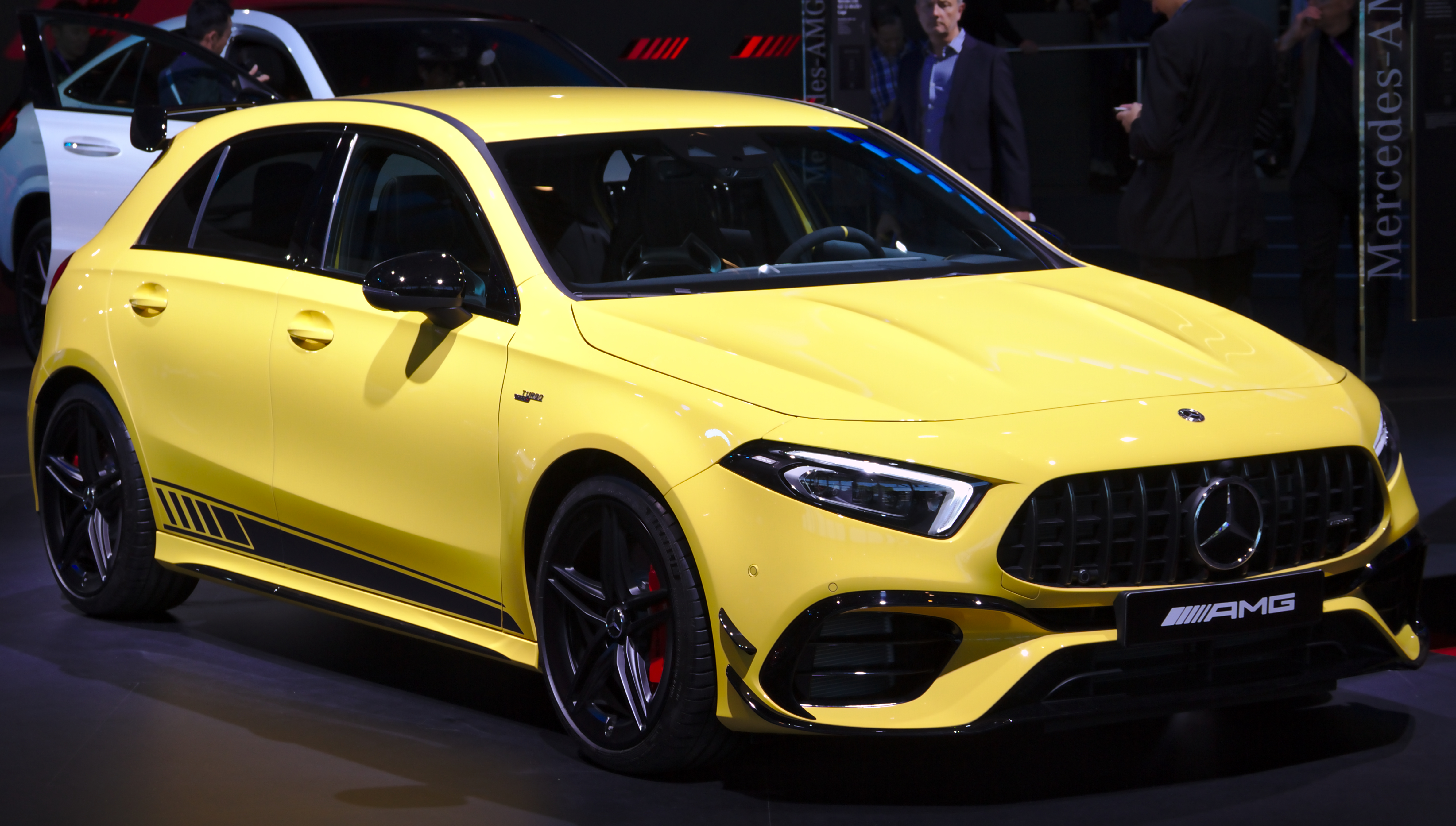 Mercedes-AMG_A_45_S_4MATIC+_(W177) at IAA 2019